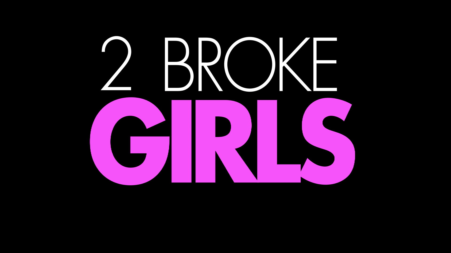 Logo of the sitcom 2 Broke Girls